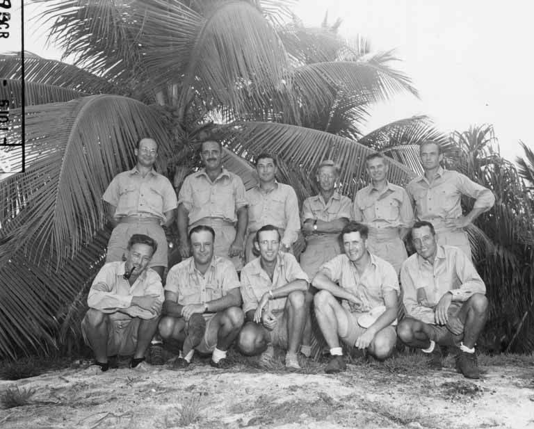 Images documenting the 1947 Bikini Resurvey Project. Caption in scrapbook: University of Washington alumni and students. Left to right, front row: Richard H. Osborn, Robert C. Meigs, Richard F. Foster, Lt. Cmdr. William R.(Ron) Richardson, Dr. Lauren R. Donaldson. Left to right, standing: Jesse P. Pflueger, Clarence F. Pautzke, Lorence B. Marquiss, Dr. Arthur D. Welander, Dr. Leonard P. Schultz, Allyn H. Seymour. ABCR 5101-12 Bikini Atoll Radiological Survey Scrapbook, p. 70. Subjects (LCTGM): Scientists--Marshall Islands--Bikini Atoll Subjects (LCSH): Portraits, Group--Marshall Islands--Bikini Atoll